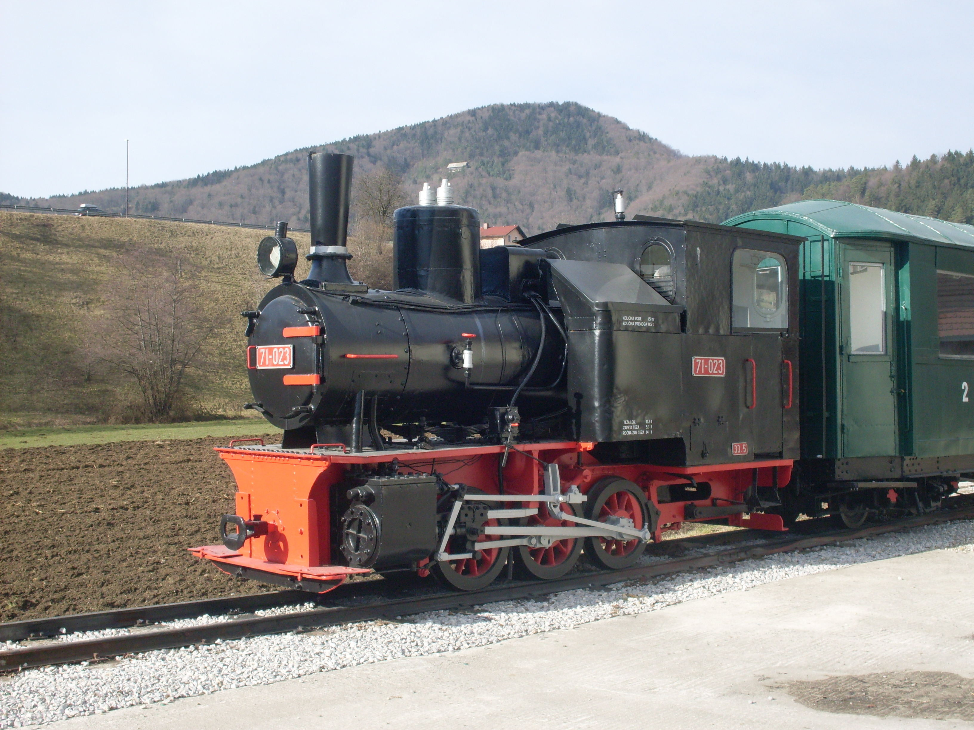 Narrow gauge (760mm) steam locomotive 71-023 in front of the former train station in Zreče, Slovenia. The locomotive was produced by Orenstein & Koppel (O&K) in Germany in 1922, serial nr. 10154. Initially it was in use at the Jesenice ironworks, marked as O-XI, until it was exhibited in Zreče. The number 71-023 never officially existed, it was assigned to the locomotive when it was "retired" as there were 22 registered locomotives of series 71. Pospichal Lokstatistik. About the class 71. More photos: 1 and 2.